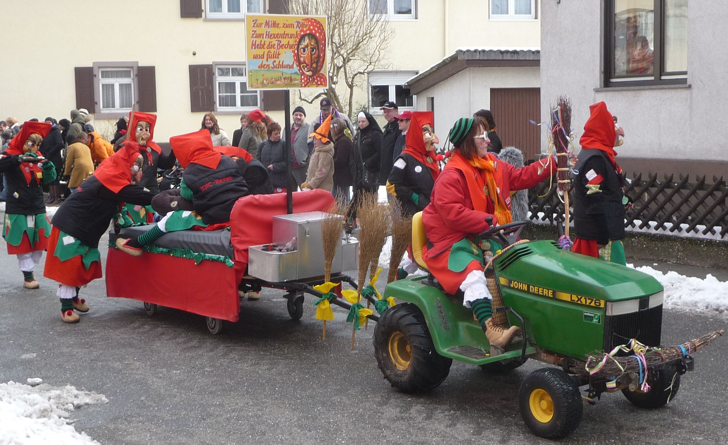 Sinzheim, Germany